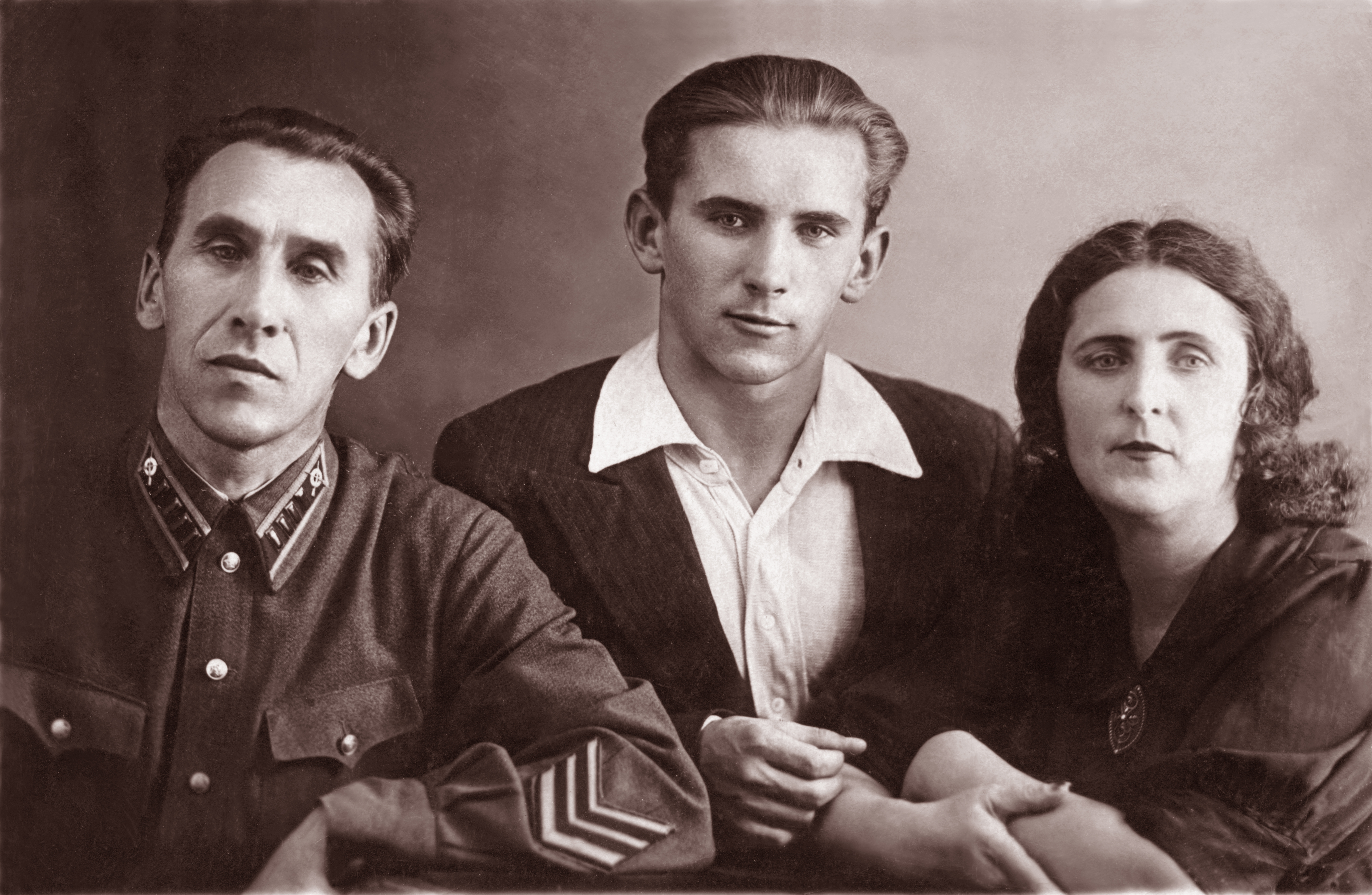 Colonel P.I. Voskresensky with his family, Krasnodar, May 1945